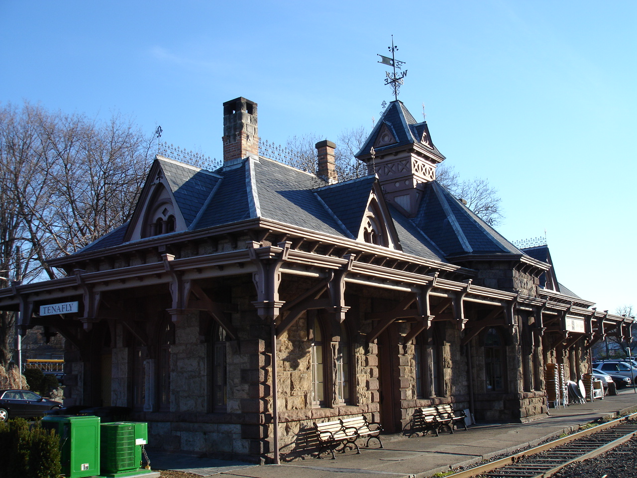 I took this photo December 2006